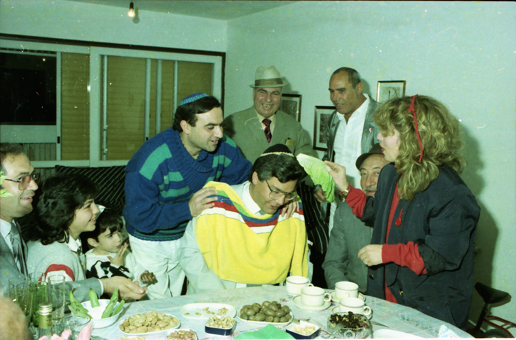 Events in Israel